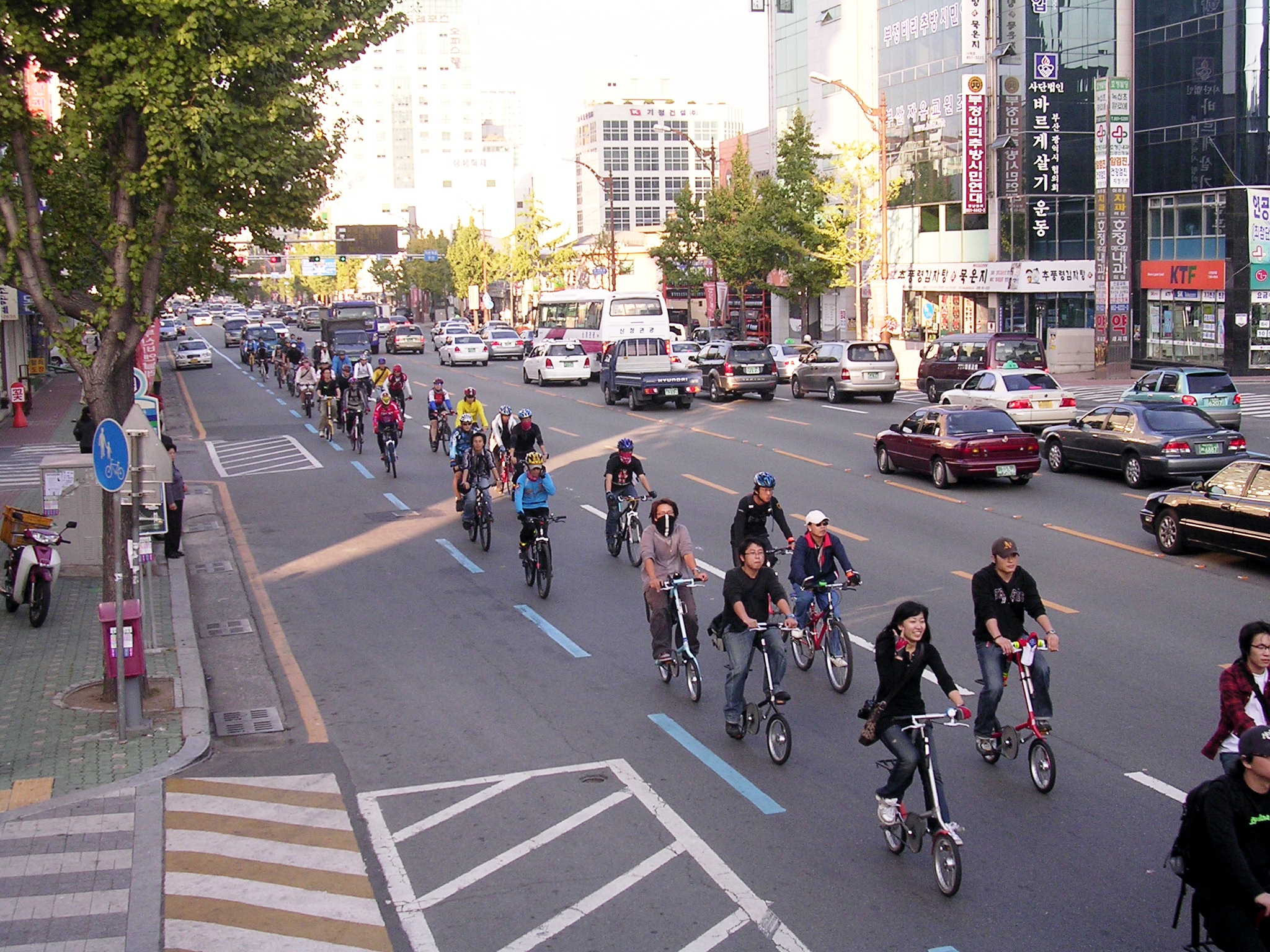 Critical Mass in Busan - 2nd Festival BusanJin Rail Station